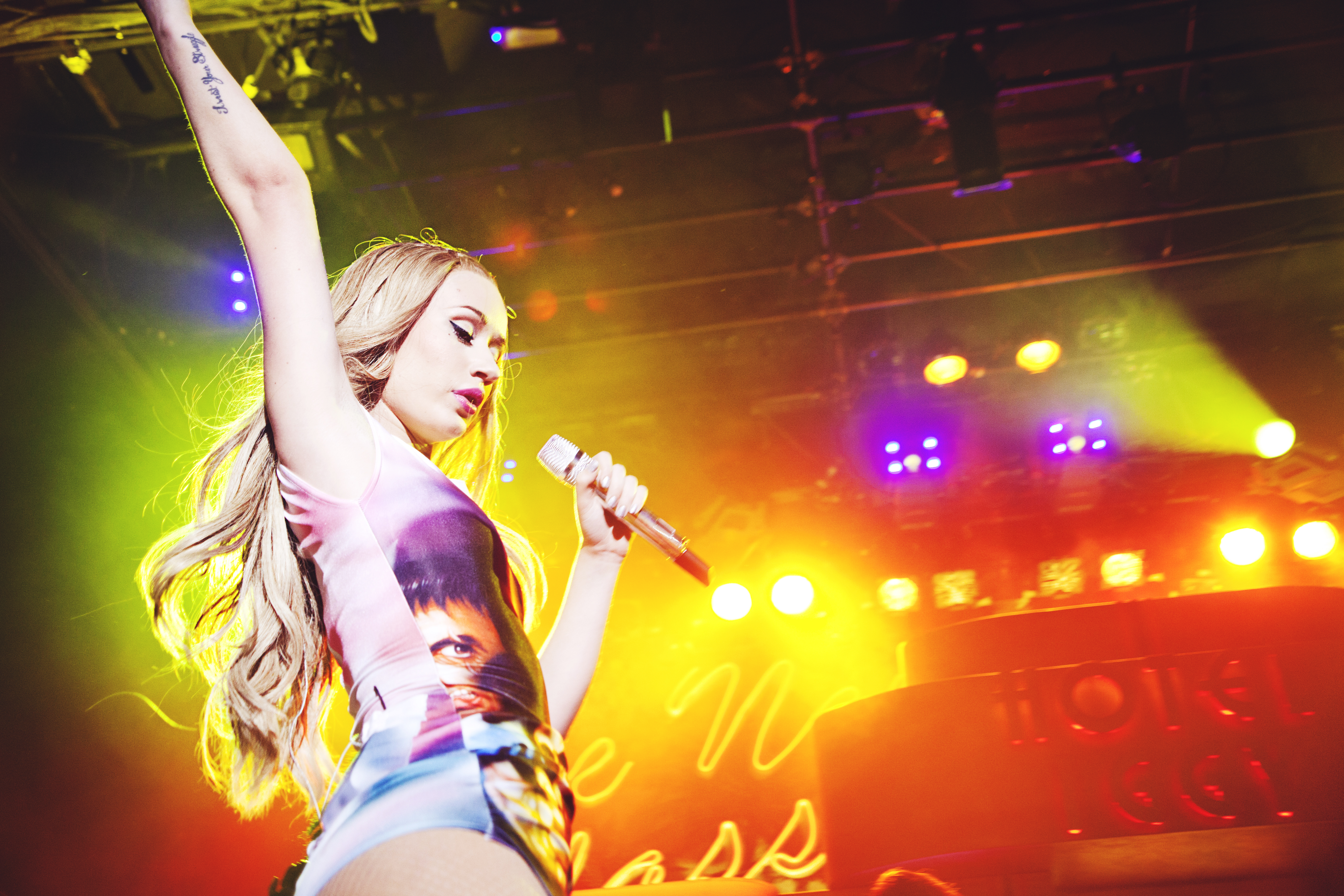 Iggy Azalea performing at the Irving Plaza in New York City, as part of her The New Classic Tour (2014).